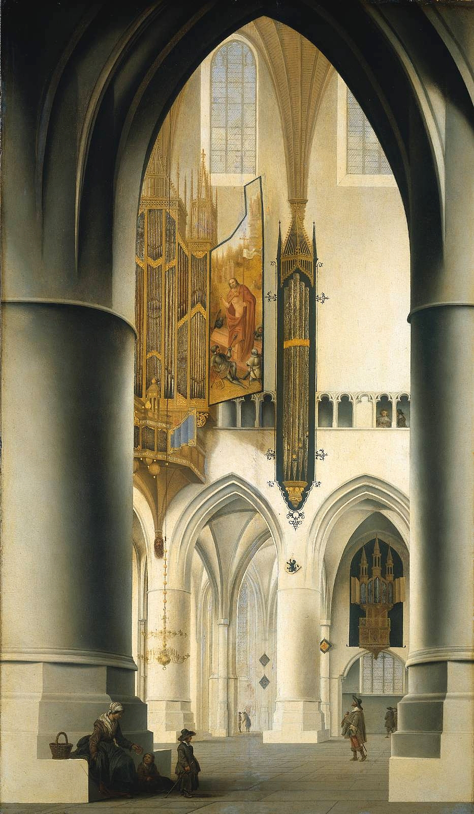 Interior of the Grote Kerk or St Bavokerk in Haarlem, seen from the southern ambulatory through the choir onto the northern ambulatory with the large organ. A woman with two children sit at the left column. On the shutter of the organ is painted the Resurrection of Christ. On a wall in the northern ambulatory there is a second, smaller organ.